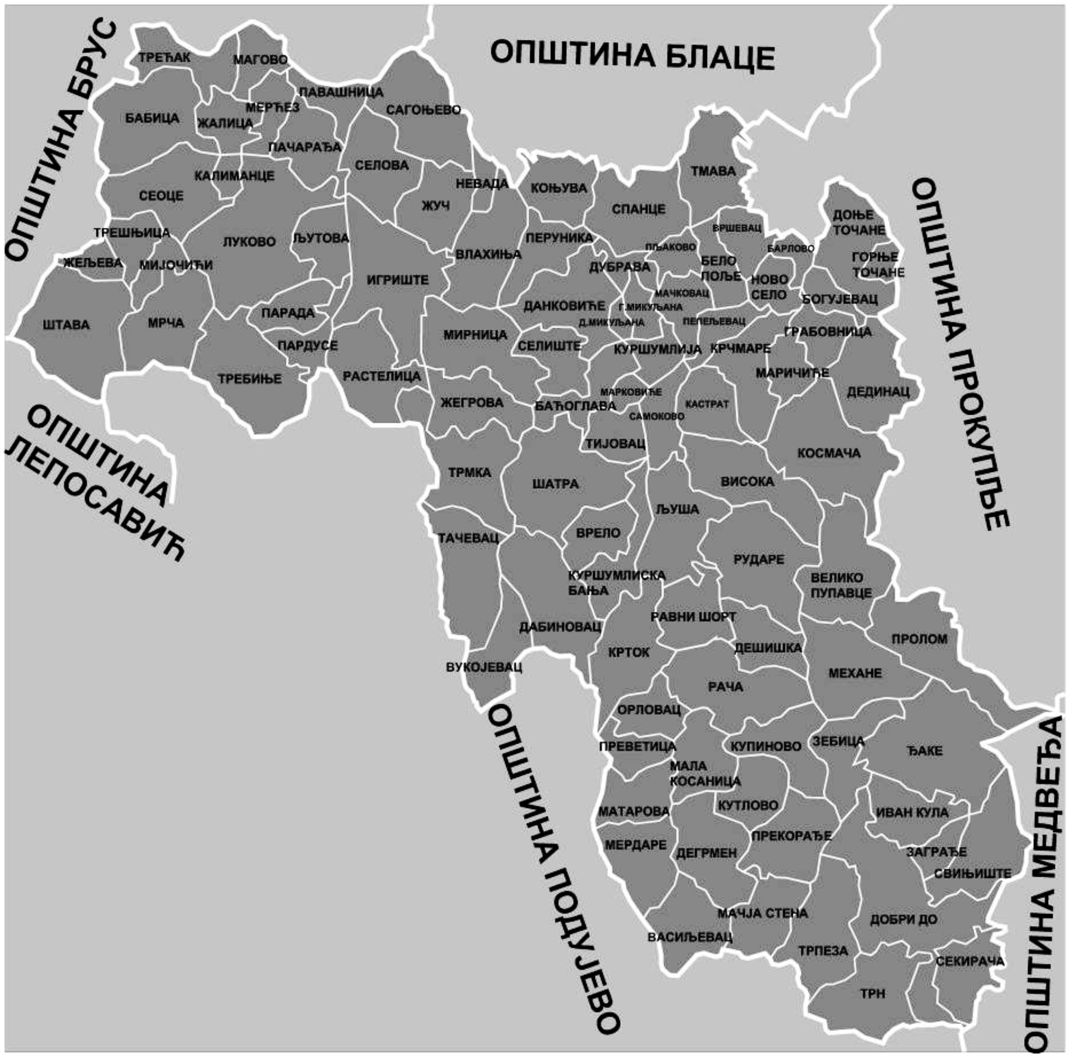 Kuršumlija Municipality